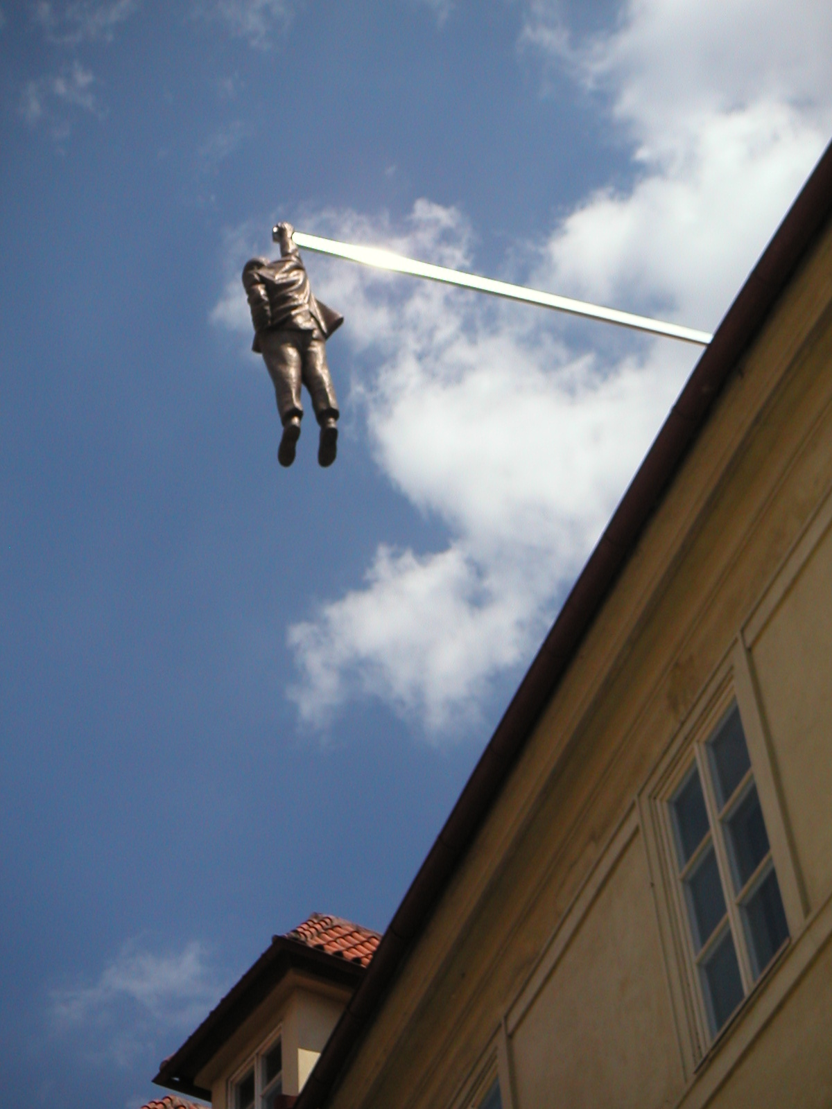 Statue of a man (Sigmund Freud) hanging by his arm, above a storefront in Prague. Sculpture by David Cerný.